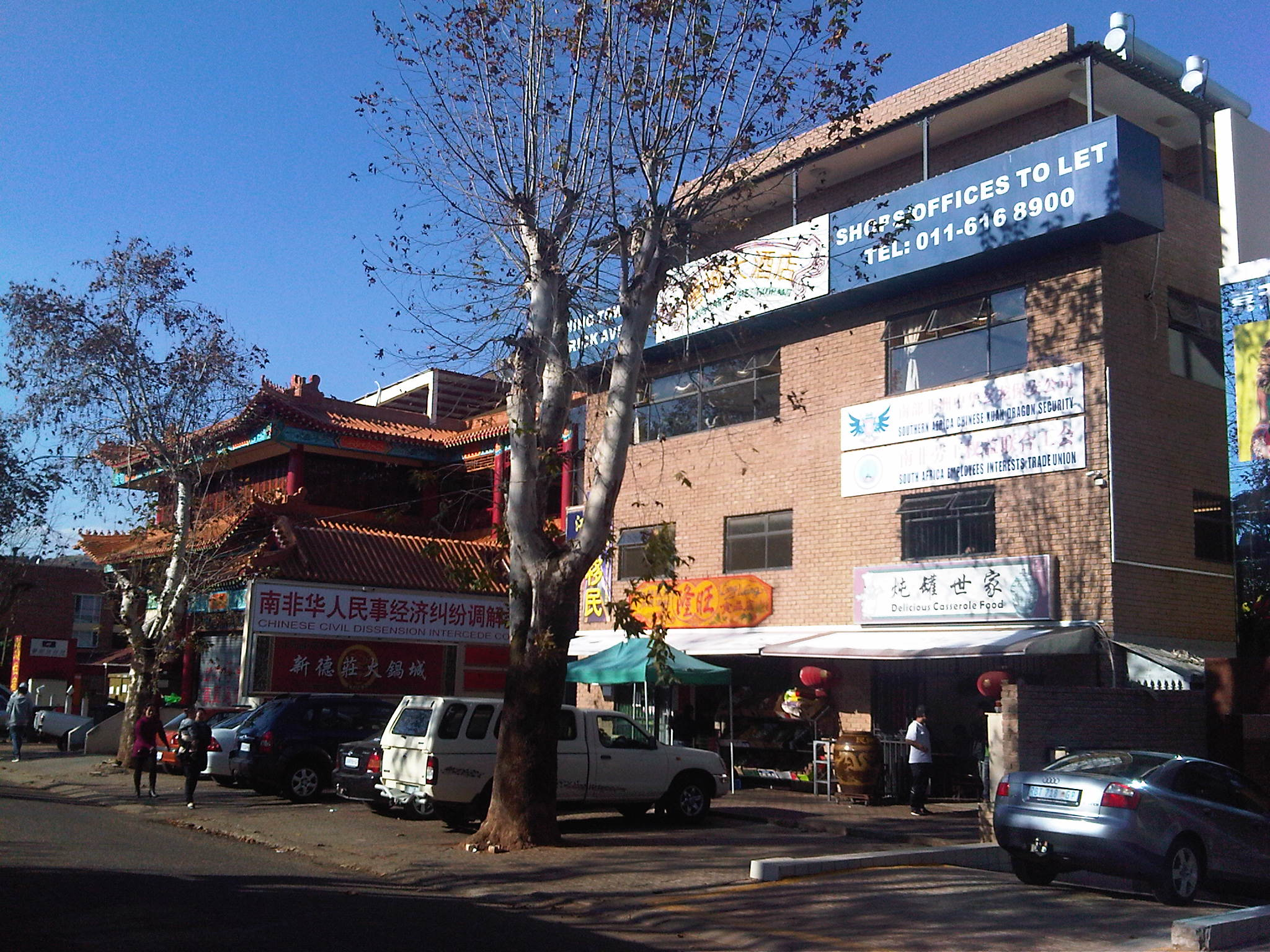 A street picture of the China town in Cyrildene, Johannesburg, South Africa.